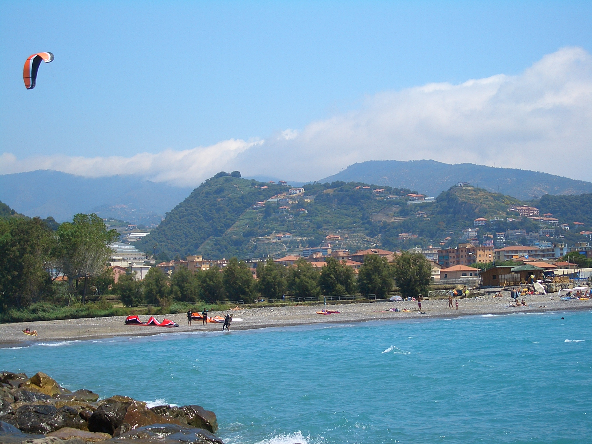 Looking east - to Vallecrosia - from the little Camporosso beach